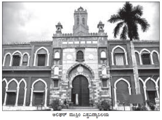 An university formed in 1920